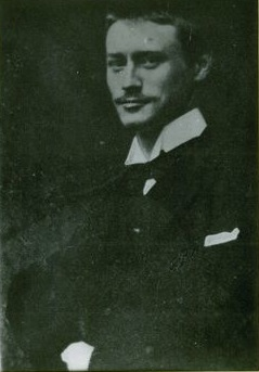 Pierre Ceresole student at the engineer college in Zurich, 1897.